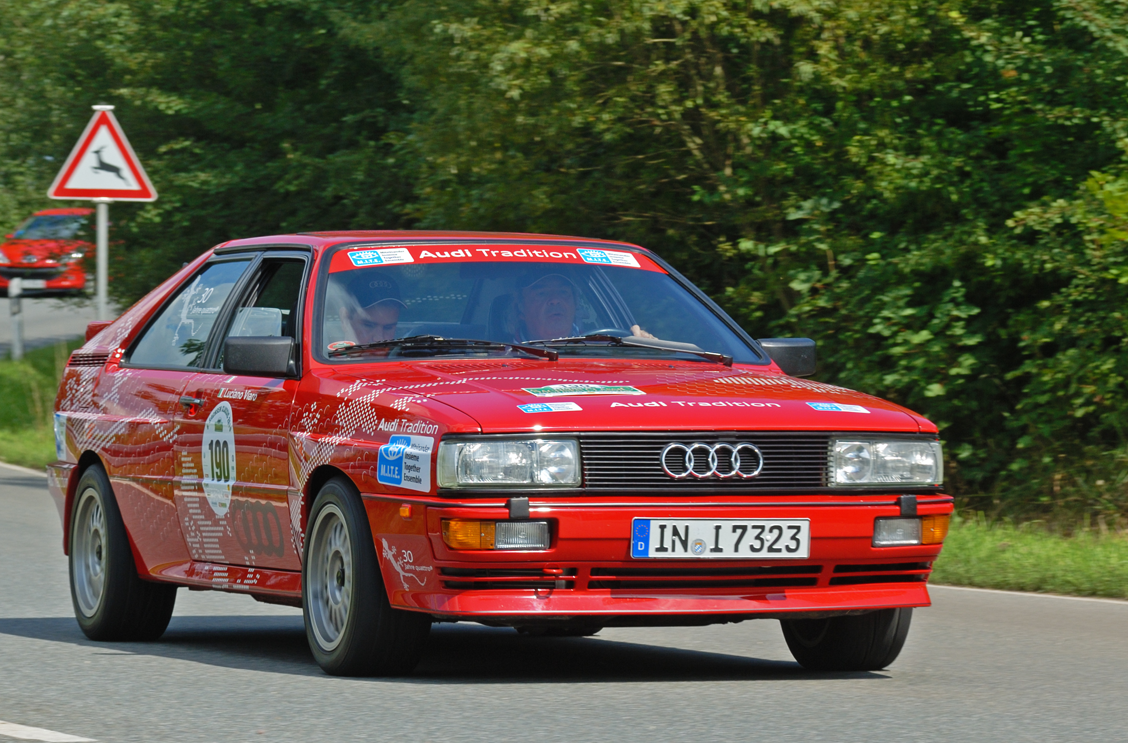 Audi Quattro from 1988 during the Saxony Classic Rallye 2010.